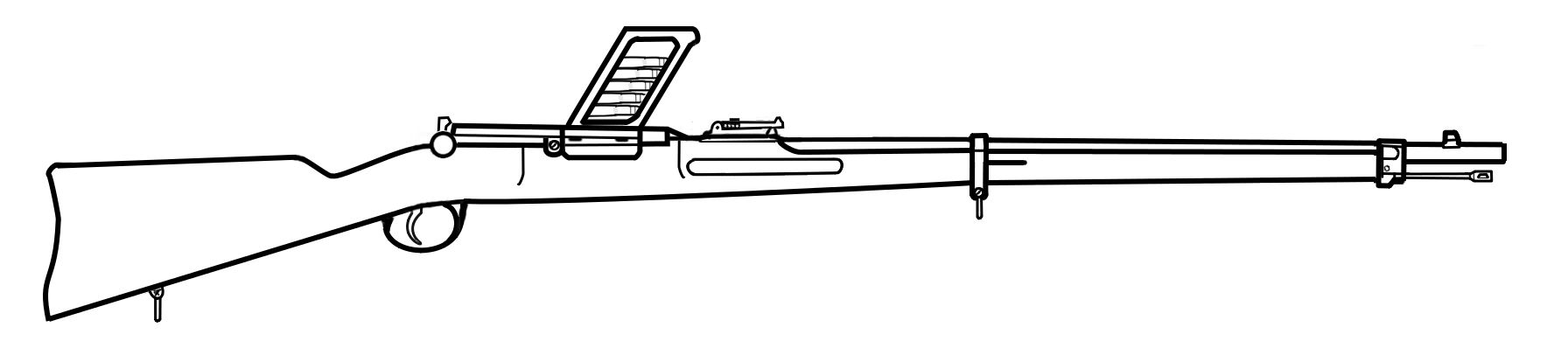 Mannlicher M1884 rifle prototype